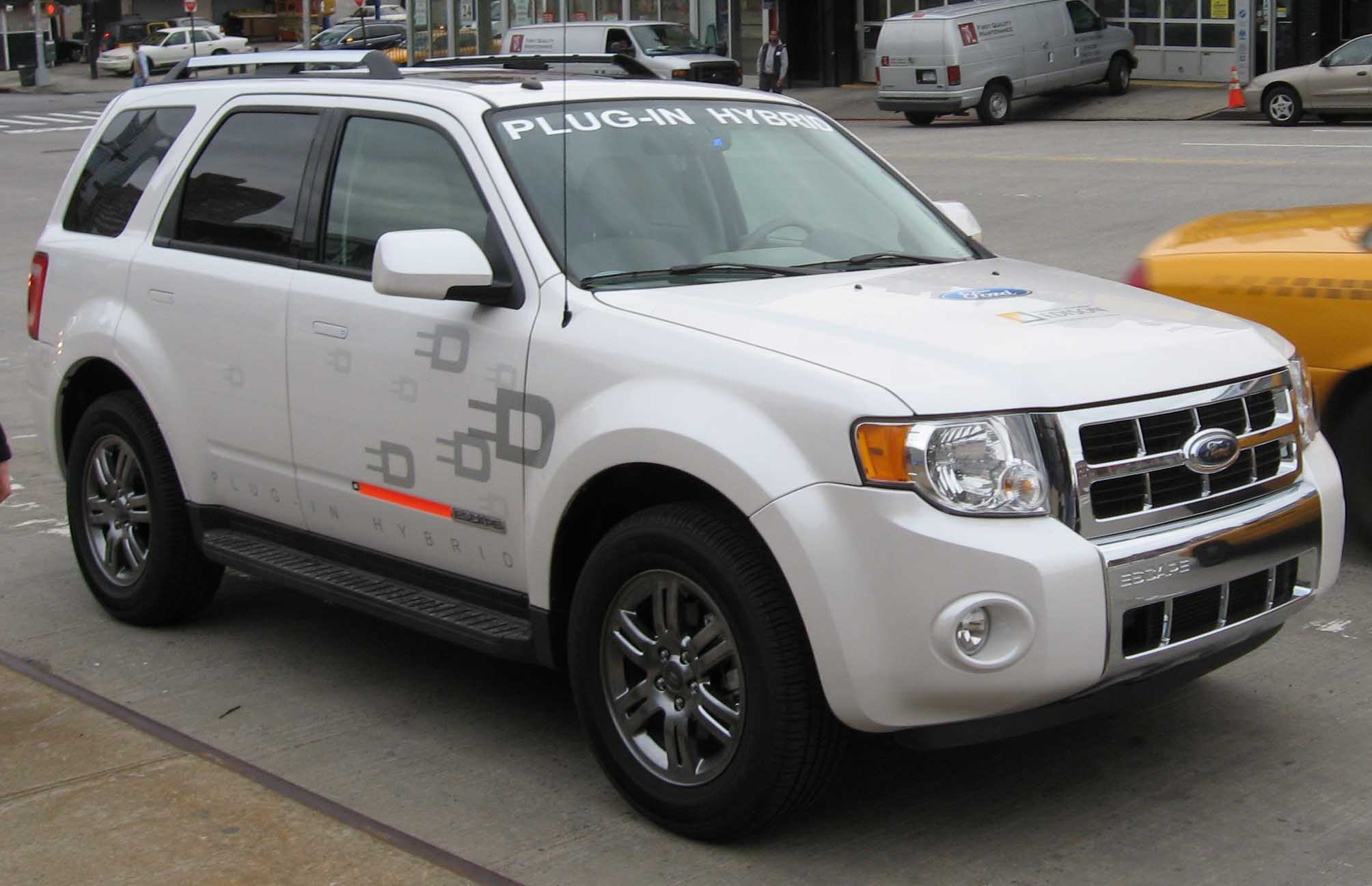 Ford Escape PHEV photographed in New York City, USA.